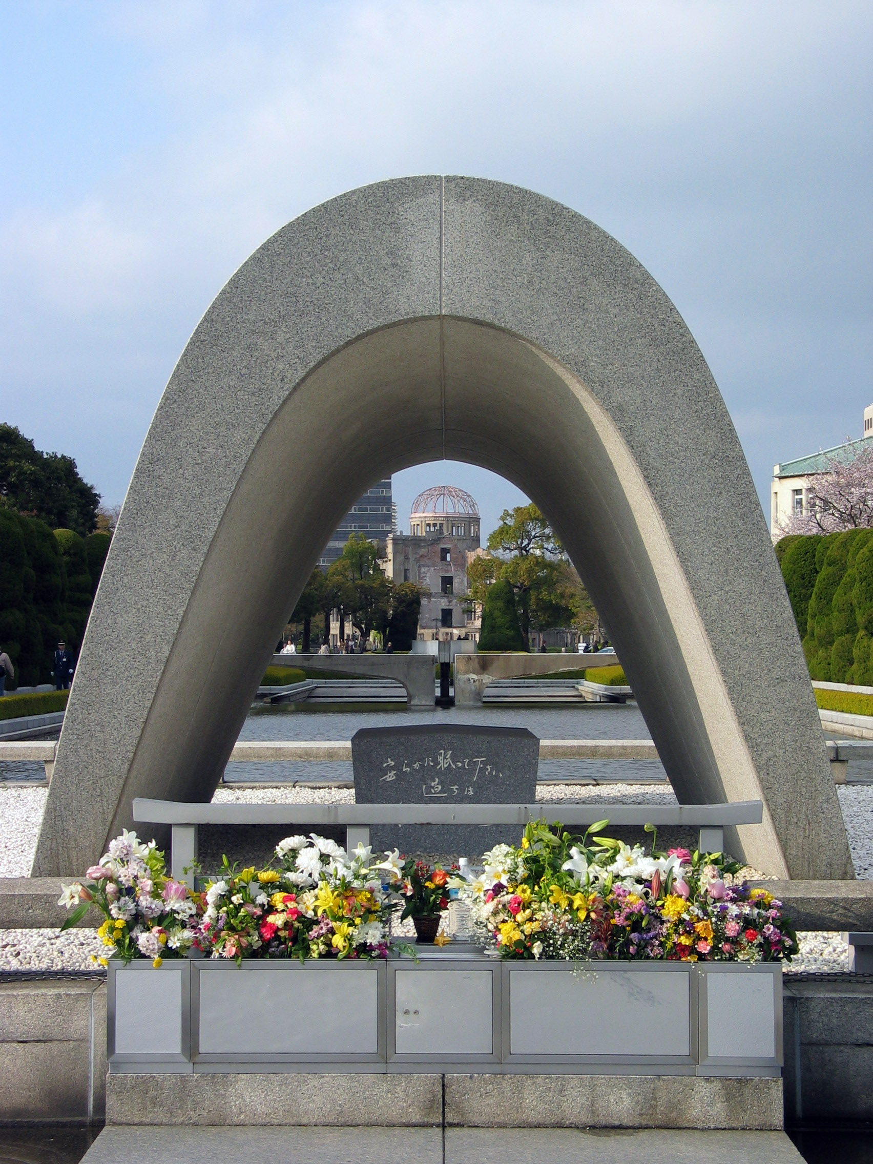 Author: Michael Oswald Time: April 5, 2006 Camera: Canon Powershot G3